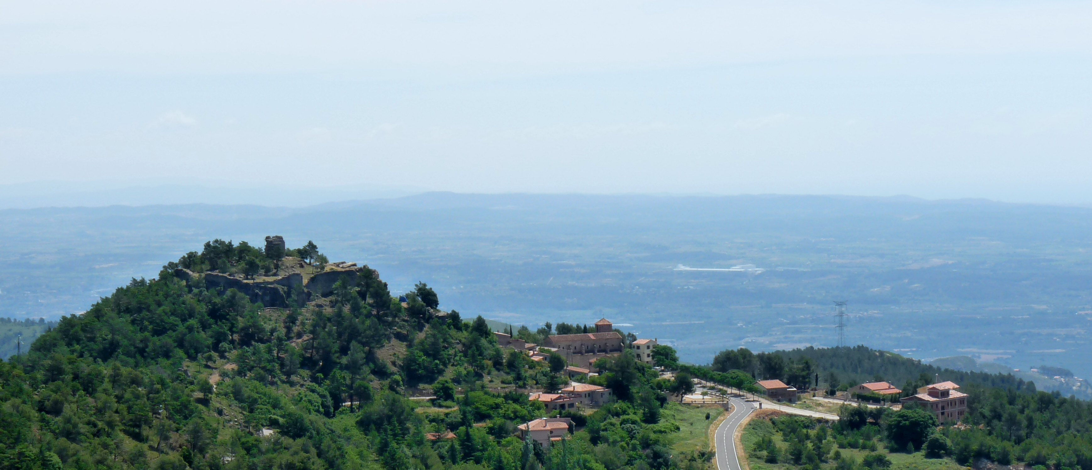 L'Albiol with its castle on top of the hill